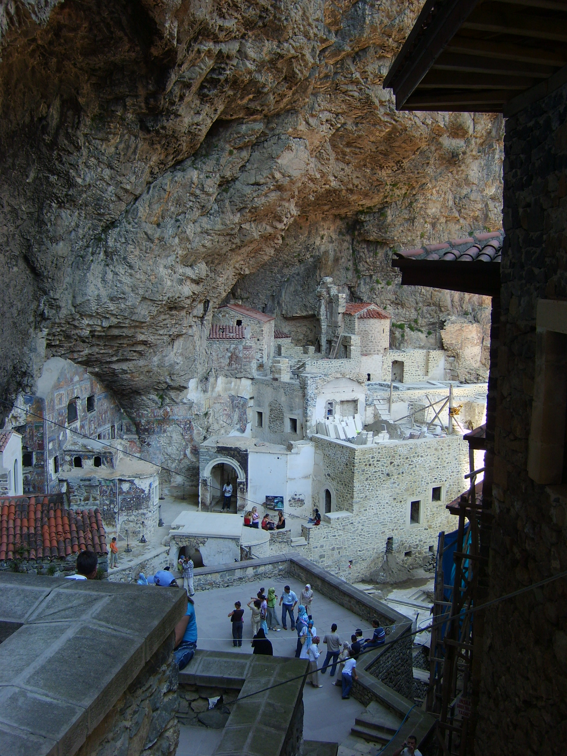 Panagia Soumela Monastery, Trabzon Province, Turkey